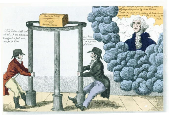 Federalist poster about 1800. Washington (in heaven)[¿?] tells partisans to keep the pillars of Federalism, Republicanism and Democracy. Another source: A 1795 [¿? Washington died in 1799] cartoon depicting Washington warning party men to let all three pillars of Federalism, Republicanism, and Democracy stand to hold up Peace and Plenty, Liberty and Independence. At the left a Democrat says "This Pillar shall not stand I am determin'd to support a just and necessary War” and at the right a Federalists claims, "This Pillar must come down I am a friend of Peace".